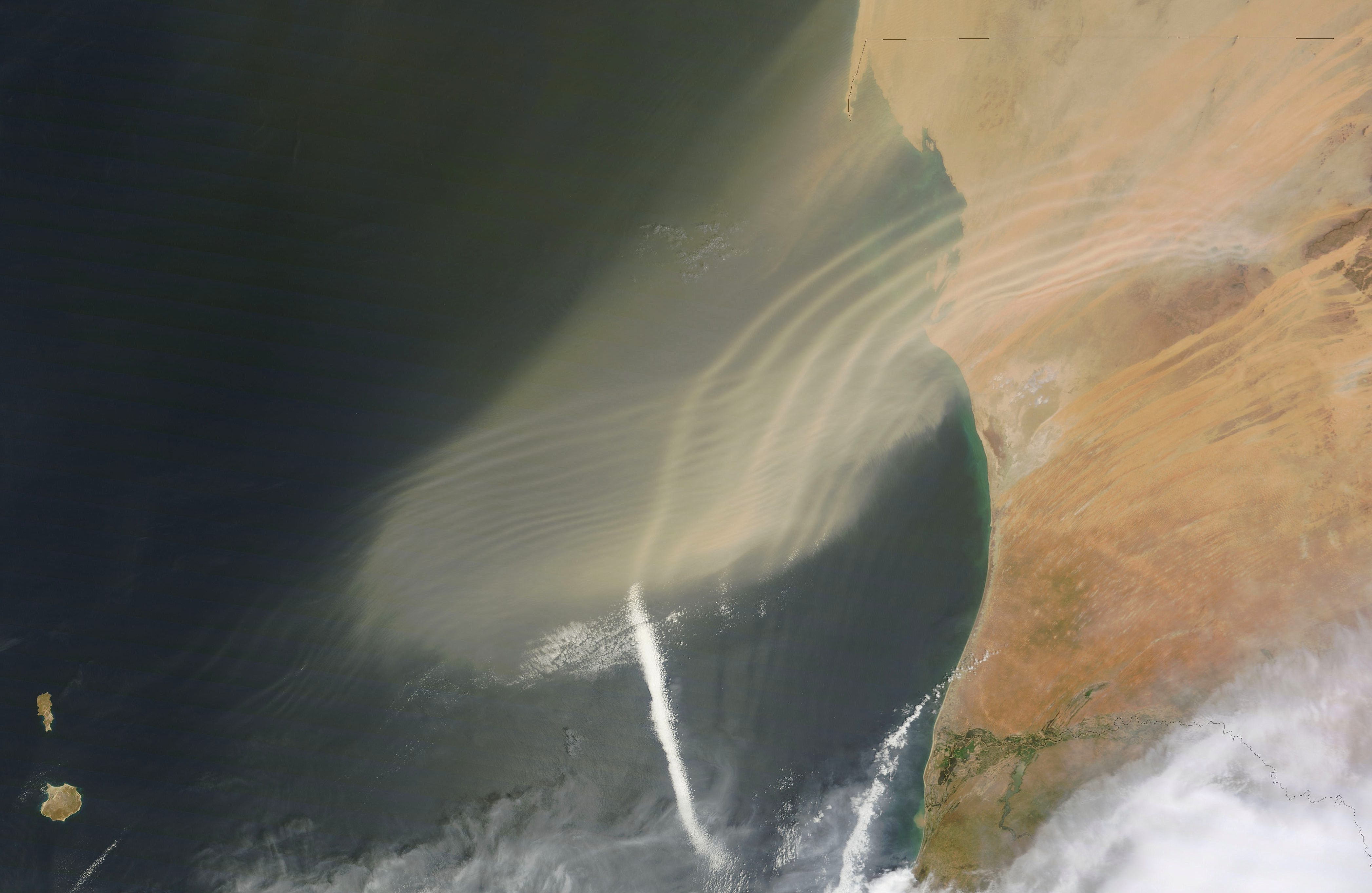 The Moderate Resolution Imaging Spectroradiometer (MODIS) on NASA’s Terra satellite captured this natural-color image of a small weak dust storm, associated with Atmospheric waves of north western Africa on September 23, 2011 at 12:00(UTC)